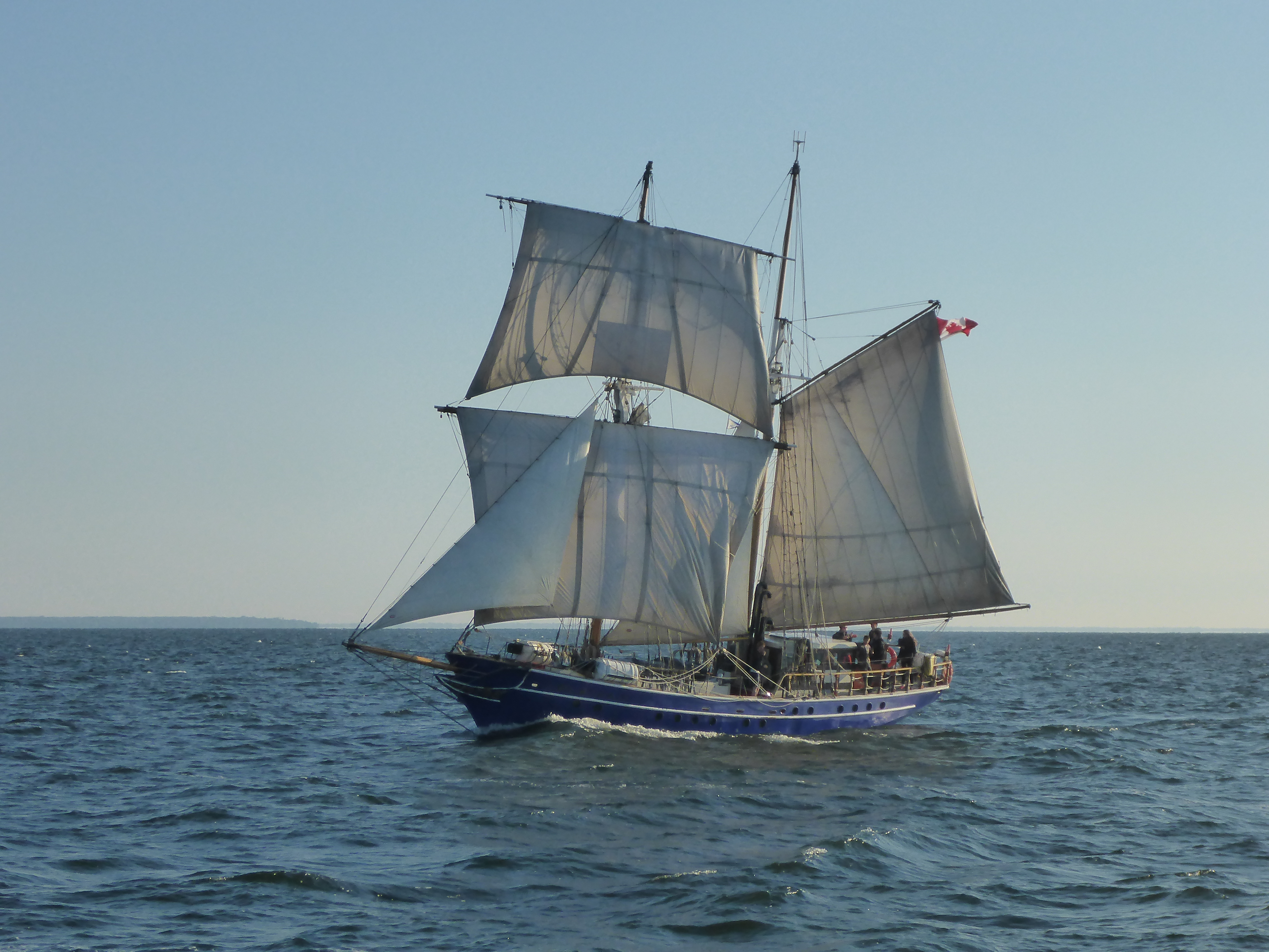 Playfair under sail Saginaw bay.